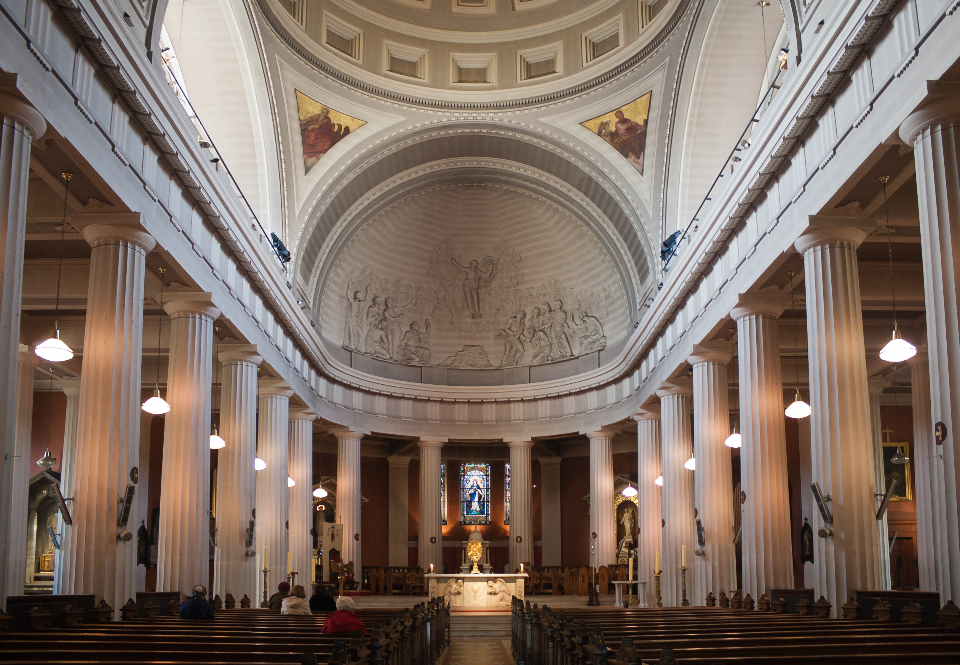 Nave, looking west towards the altar.